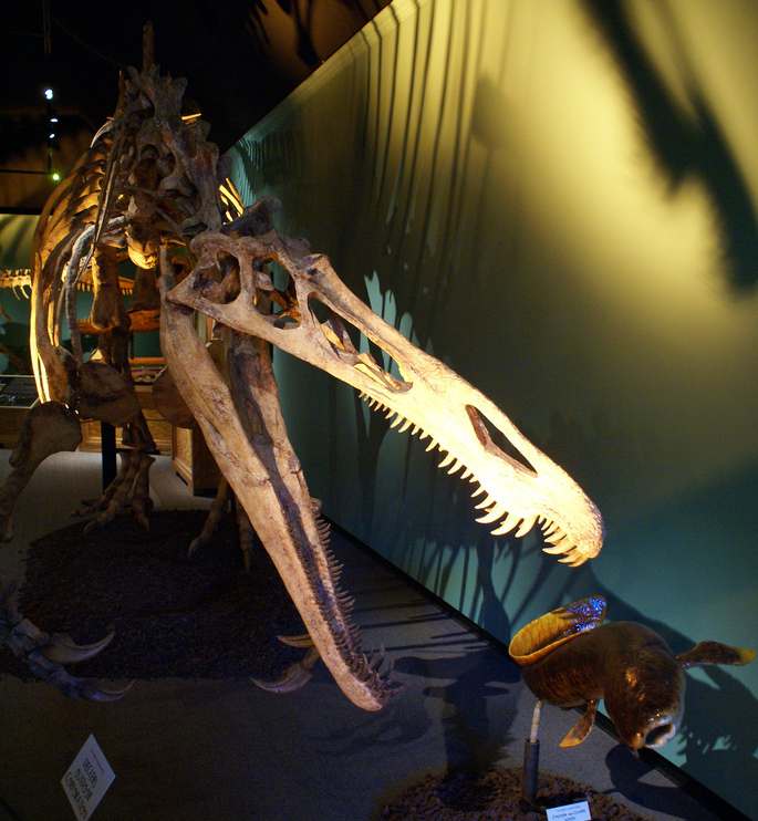 Most powerful forelimbs of any two-legged dinosaur Long, narrow jaws to catch fish Age: 110 million years old Height: 12 feet Length: 36 feet Origin: Niger